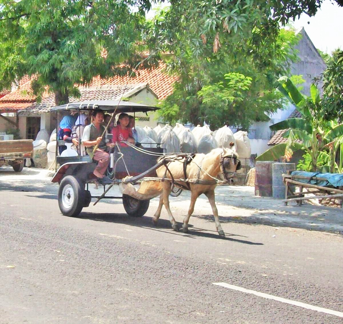 Dokar, a kind of Javanese horse-cart, in Tegal area